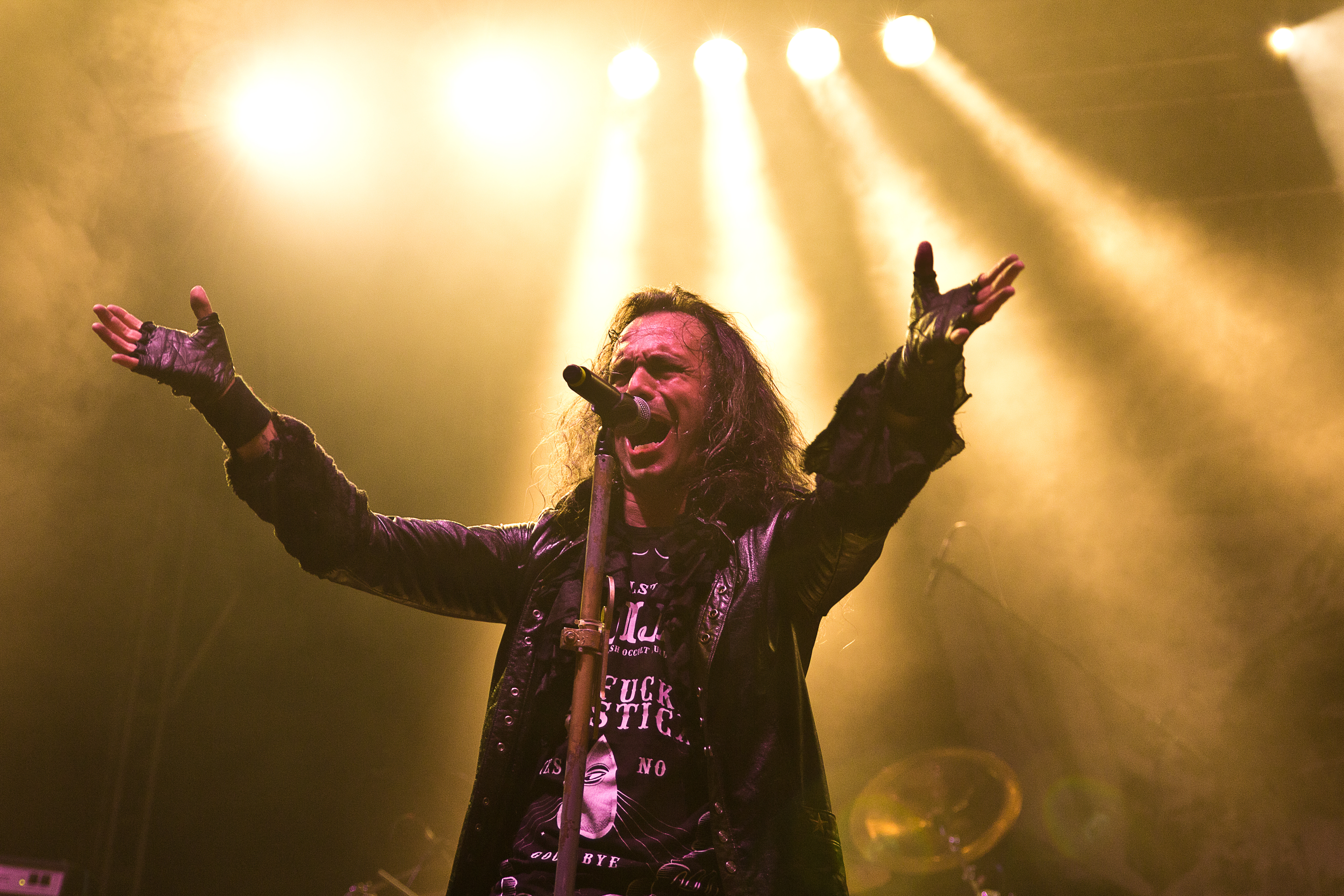 The Portuguese gothic metal band Moonspell at the Wave-Gotik-Treffen 2015 in Leipzig/Germany.